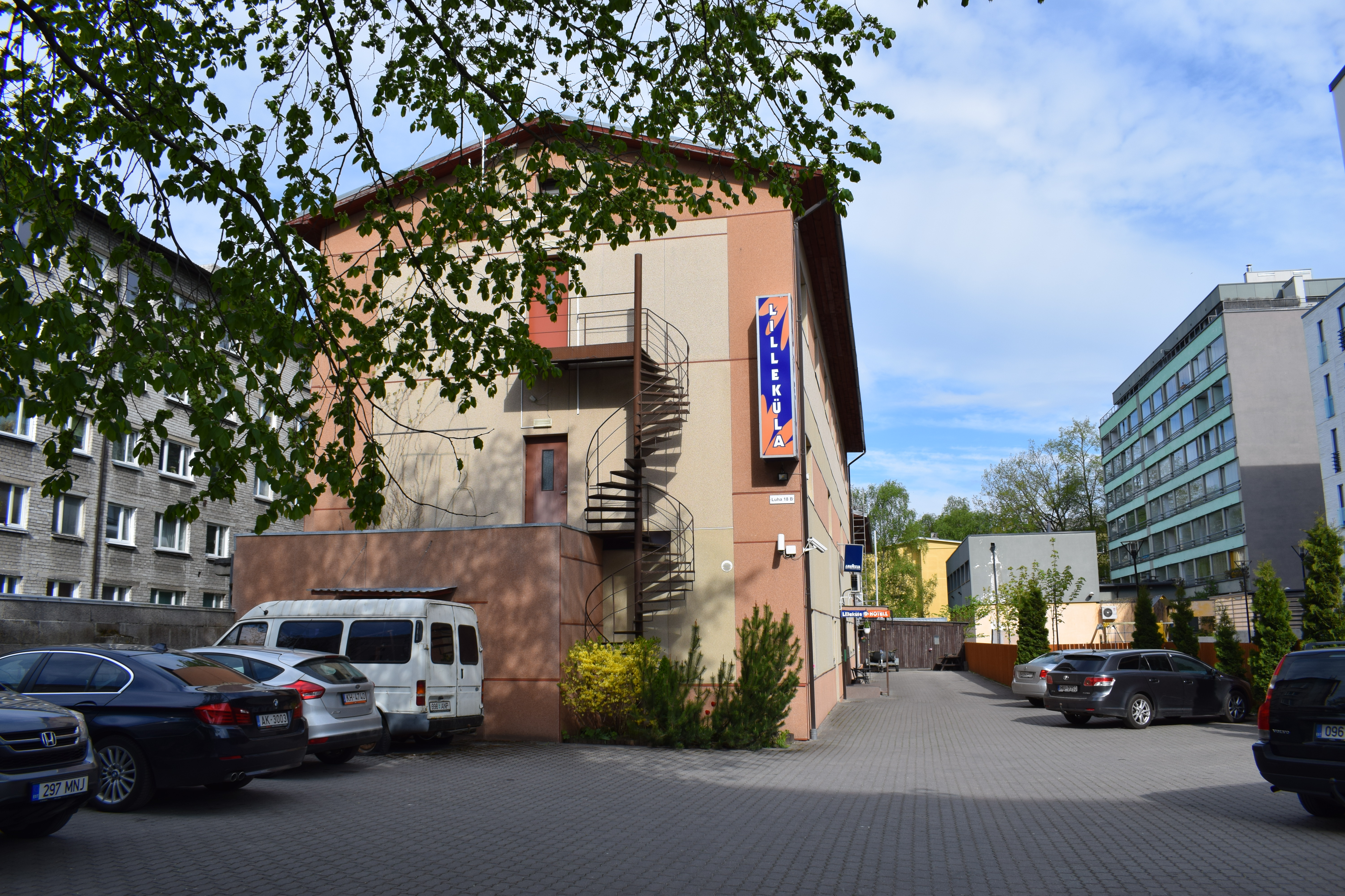 Lilleküla hotel